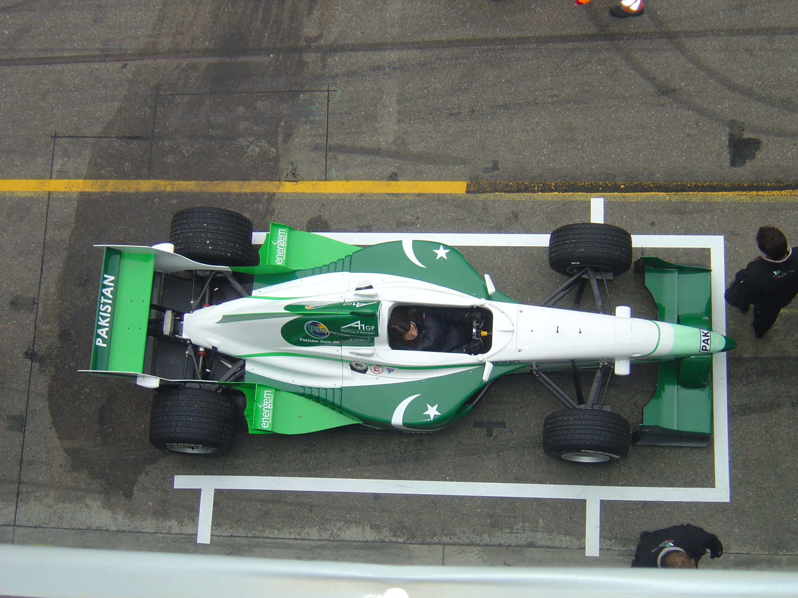 A1 Team Pakistan's Zytek-Lola A1GP car: the photo was taken during 2007's A1GP race weekend at Brno